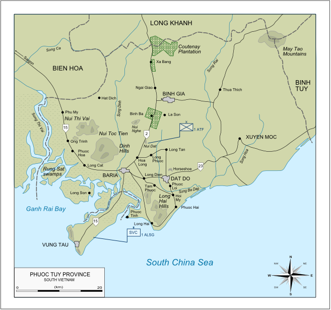 Map illustrating Phuoc Tuy Province, South Vietnam (including Australian force element locations) during the Vietnam War